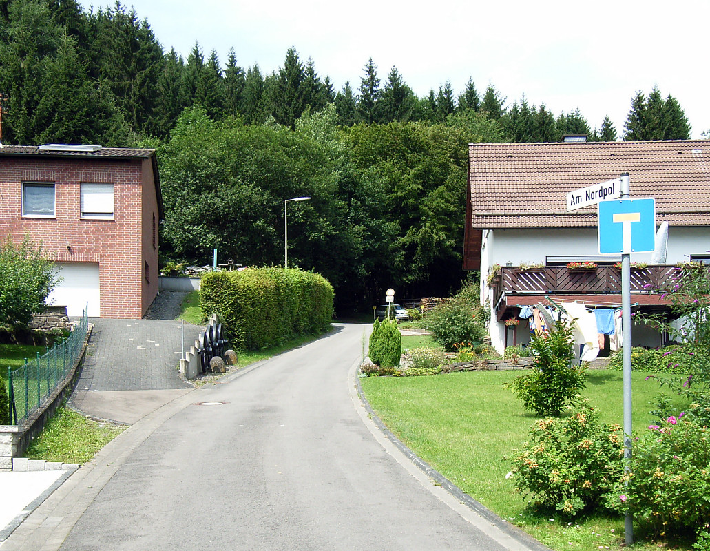 curious streetname at Dümmlinghausen, district of Gummersbach, North Rhine-Westphalia, Germany